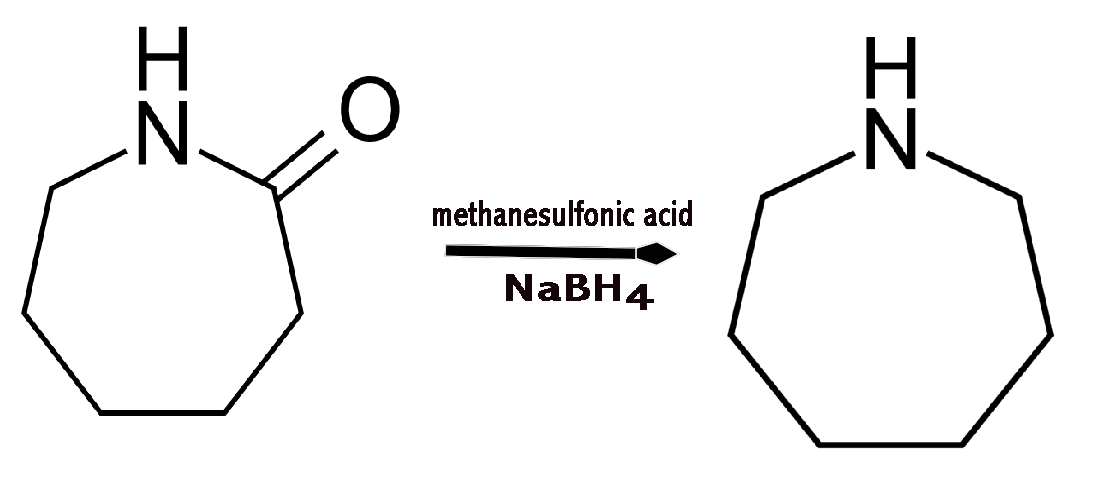 Azepane synthesis from caprolactam, sodium borohydride and methanesulfonic acid